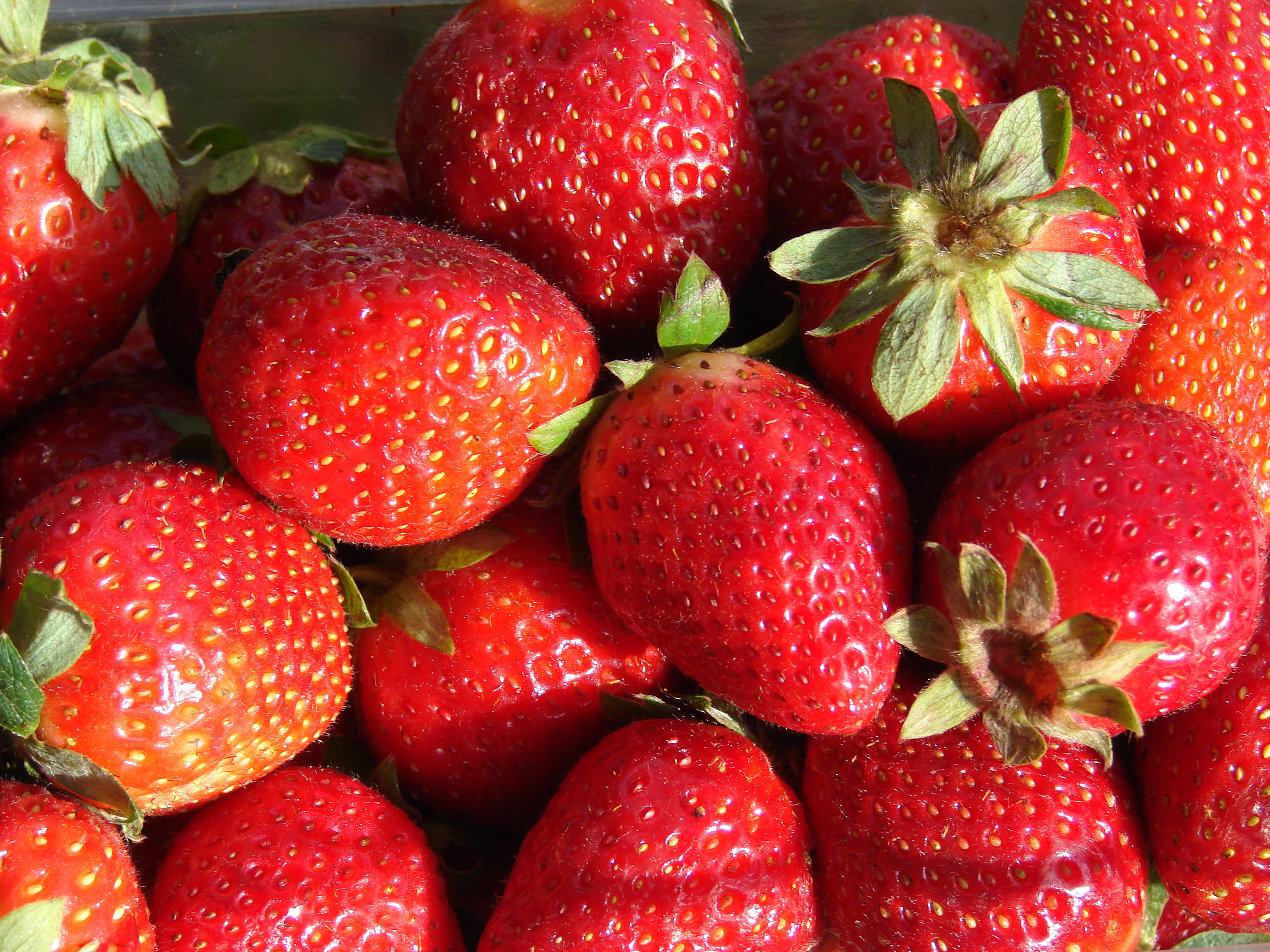 Fragaria x ananassa (fruit). Location: Maui, Makawao